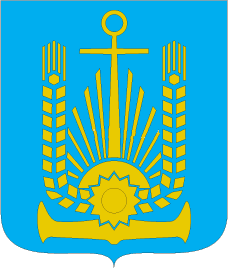 Coat of Arms of Velykolepetyskyj raion